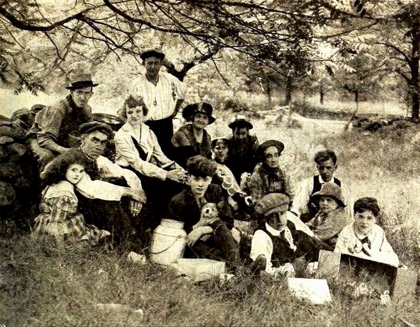 Paramount Pictures film crew for a series of 1919 comedy short films based upon comic strip characters "Skinnay" and "Her" created by Clare Briggs, in the front row from left: Rosemary Carr, director John W. Kellette, and John Carr. On page 37 of the October 1919 Film Fun.